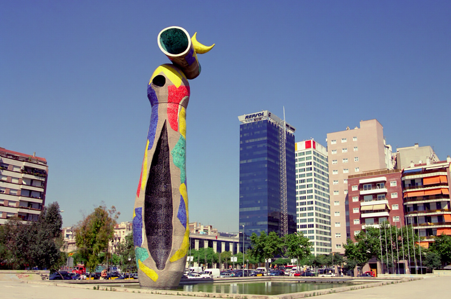 Parc Joan Miro, in Barcelona